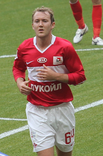 Aiden McGeady